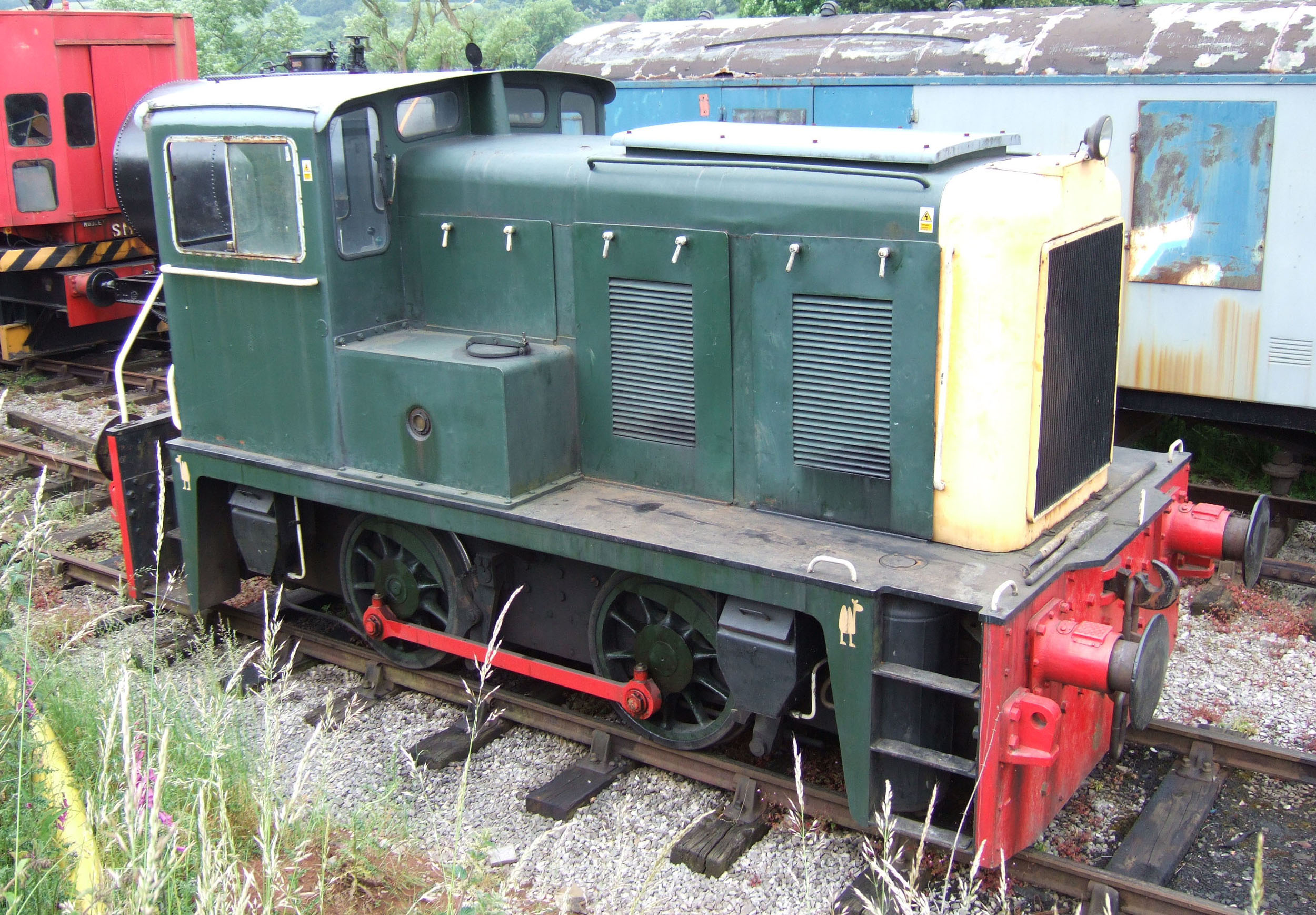 Yorkshire Engine Co. 0-4-0DH 2672 of 1959 at Cheddleton Station on the Churnet Valley Railway. Note - This is NOT a British Rail Class 02 locomotive, it was built for industrial use and has never been owned by British Rail. Taken with a Fuji FinePix F10, trimmed and file size reduced using Adobe Photoshop 5.0LE